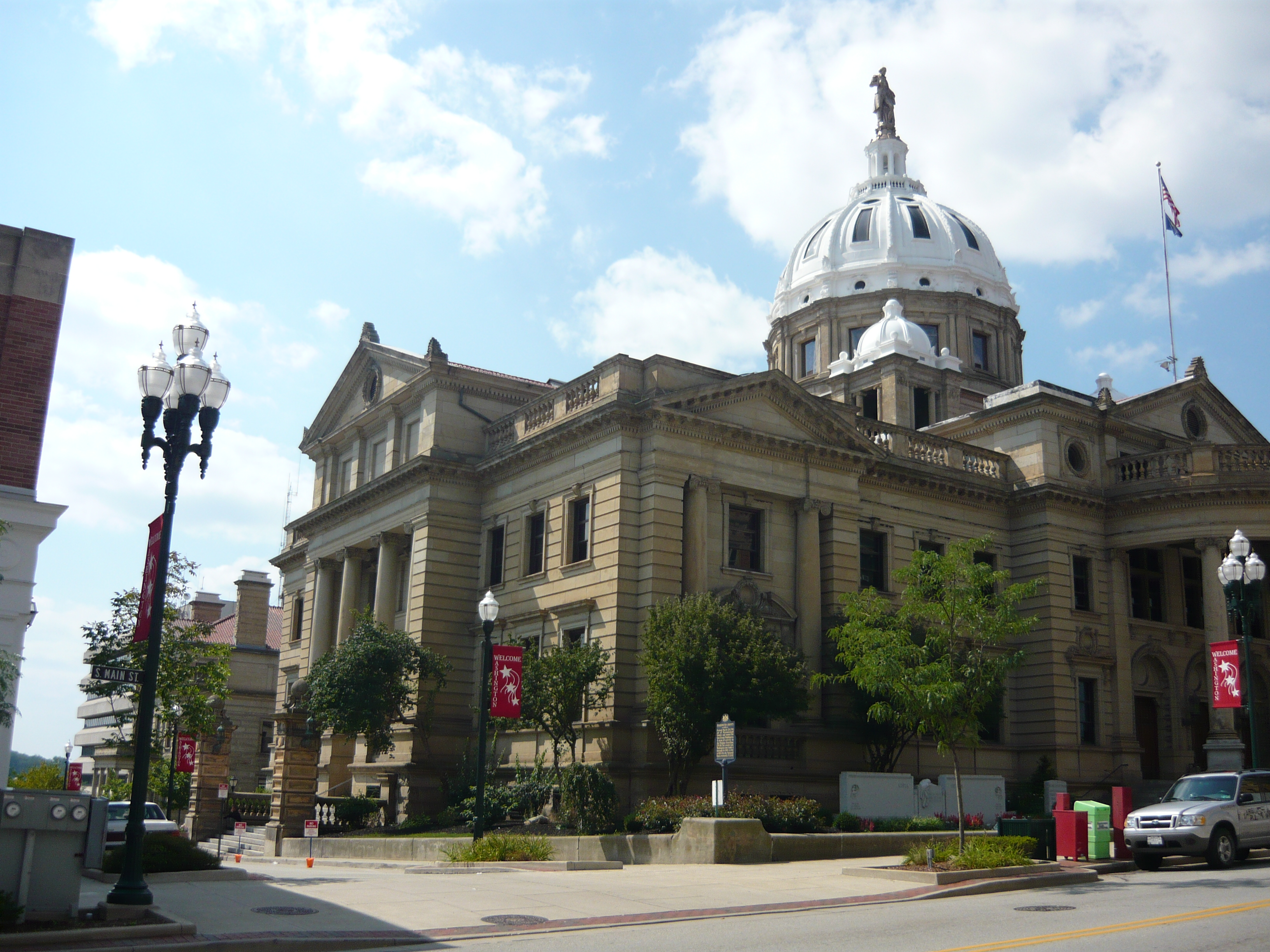 Washington County Courthouse, 1 South Main Street (corner of West Beau Street), Washington, Pennsylvania. Built 1900 in a Beaux-Arts style. Architect: Frederick J. Osterling.